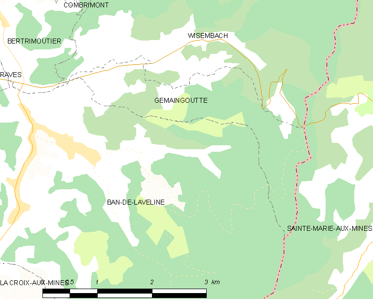 Map of French municipality Gemaingoutte